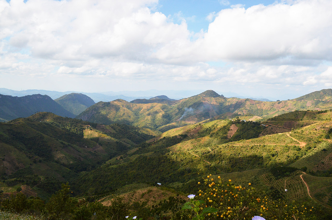 Landscape of Southern Shan State (Near Kalaw)